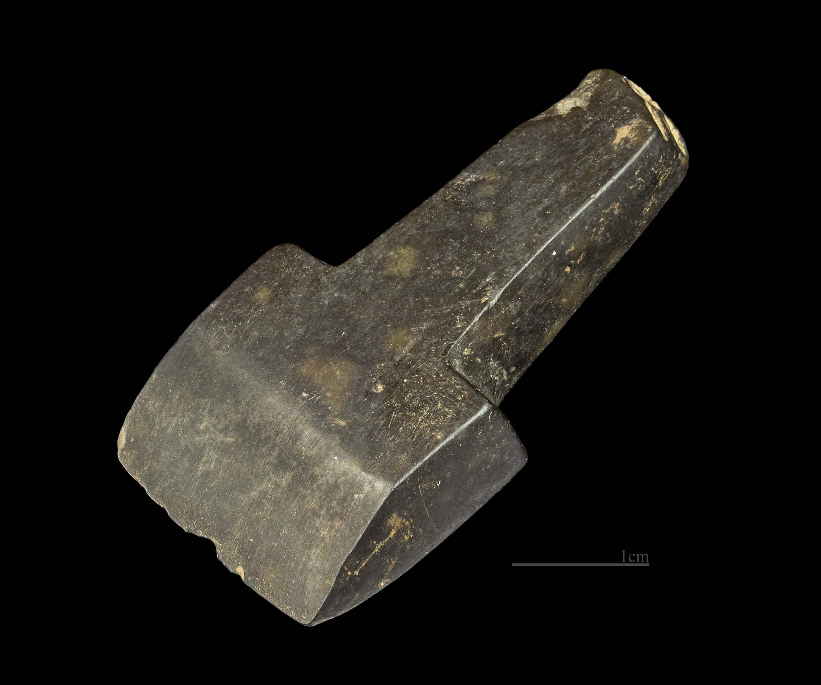 Little Shouldered axe Stage: Holocene Bronze age 1800-1500 BC Locality: Samrong Sen, Cambodge Saize: 4.7x2.4x1.1 cm Collection: Jean Moura